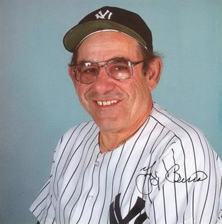 Professional baseball player and manager Yogi Berra